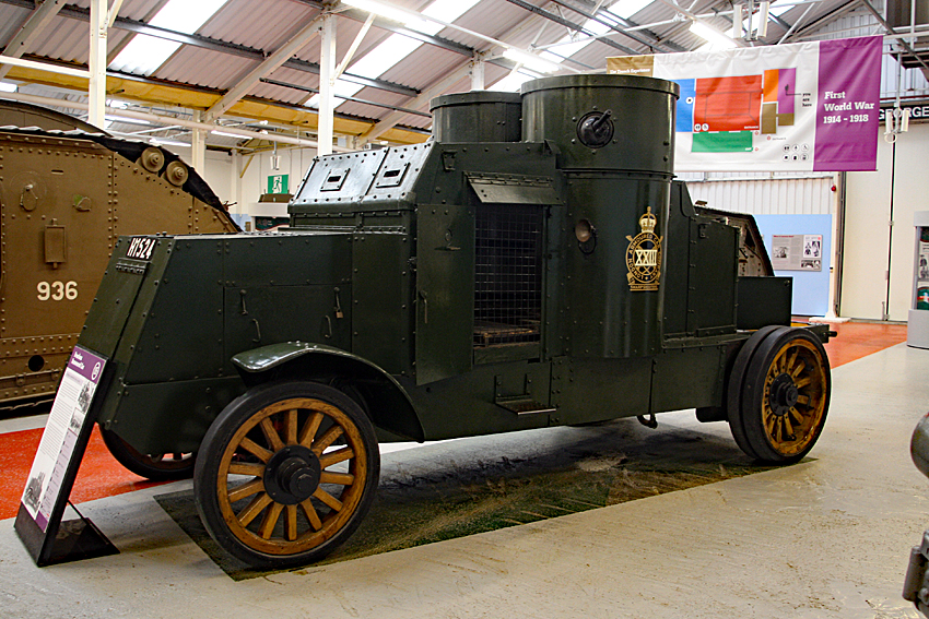 A Peerless armoured car of the 23rd London Armoured Car Company. Preserved in the Tank Museum, Bovington.